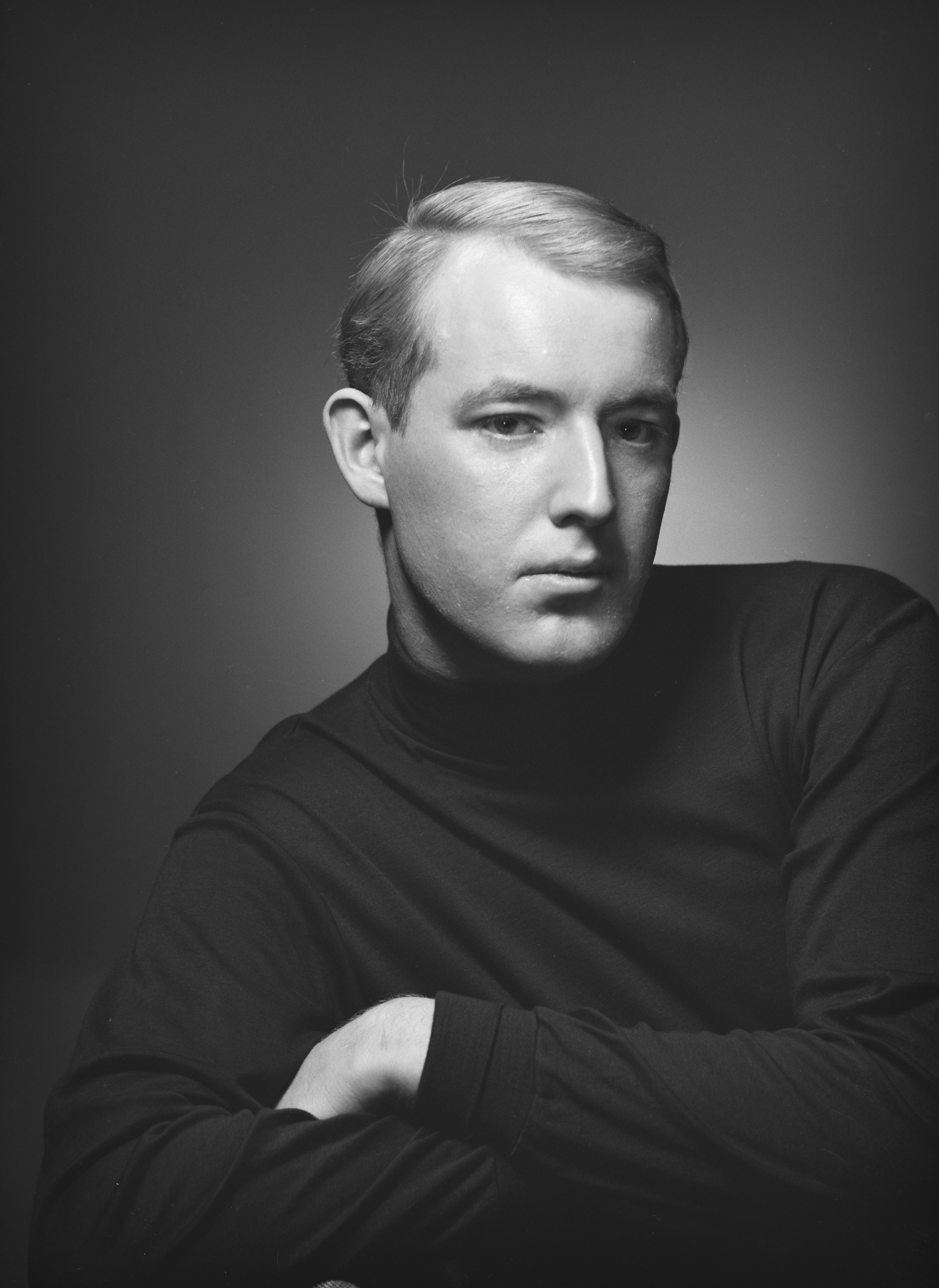 Photograph of the Finnish actor Göran Schauman (1940–).